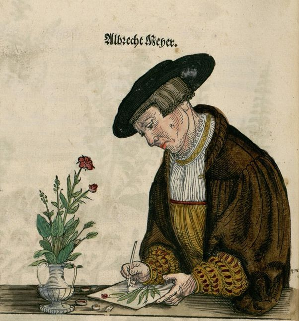 Self-portrait of Albrecht Meyer (fl.1540), illustrator of Leonhart Fuchs' "De historia stirpium commentarii insignes".